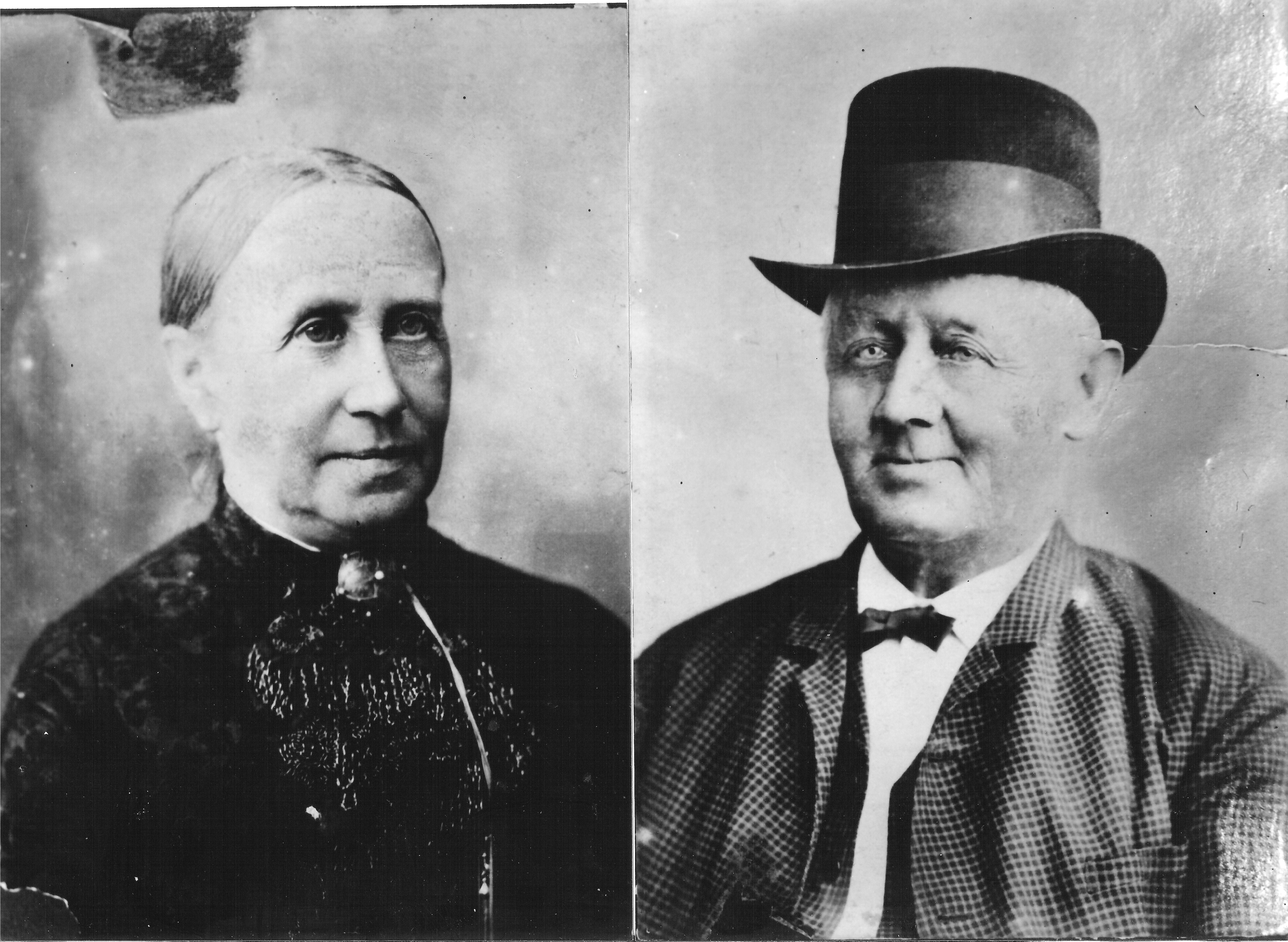 Real-estate developer Olaus Johnsen